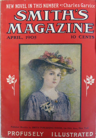 Cover of Smith's Magazine